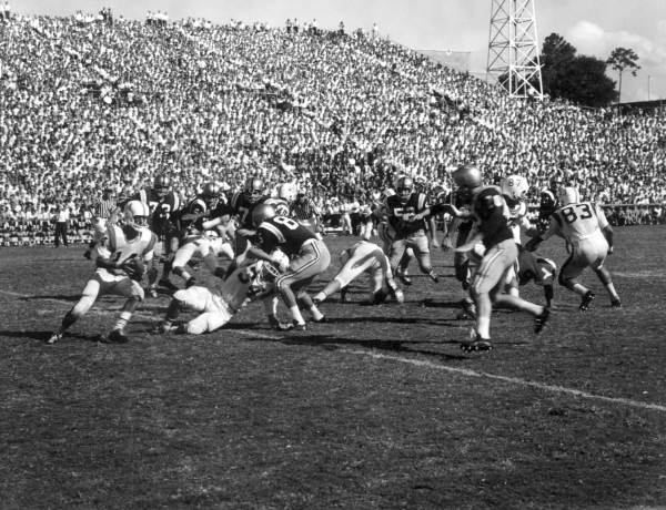 1961 Gators v. Seminoles game. The game ended in a 3-3 tie. The only other game in the FSU-UF series to end in a tie was the 1994 edition, a 31-31 shootout in Tallahassee.